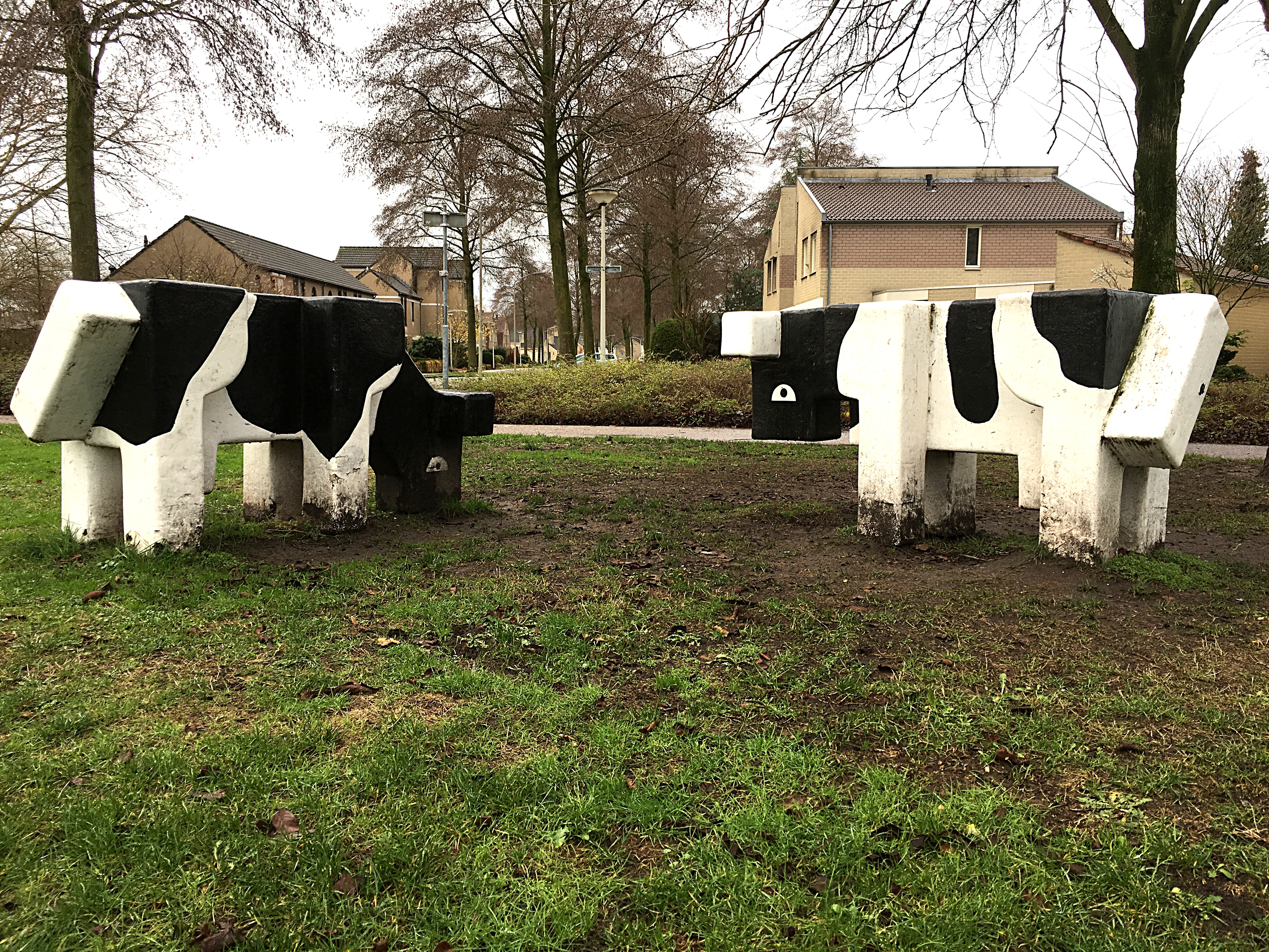 Twee zwartwitte Koeien by Hans Morselt in Deurne NL